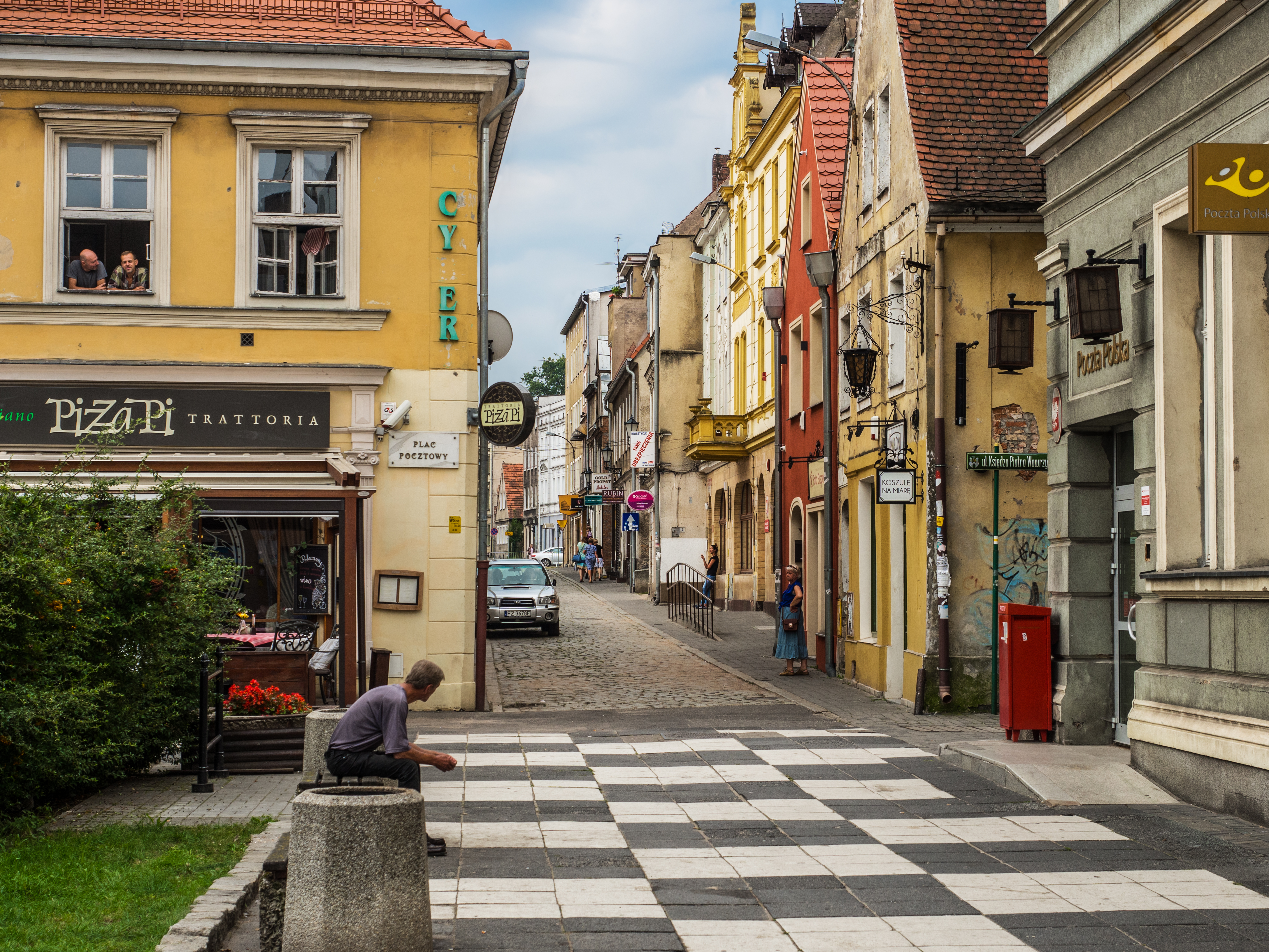 Zielona Góra - Stare Miasto